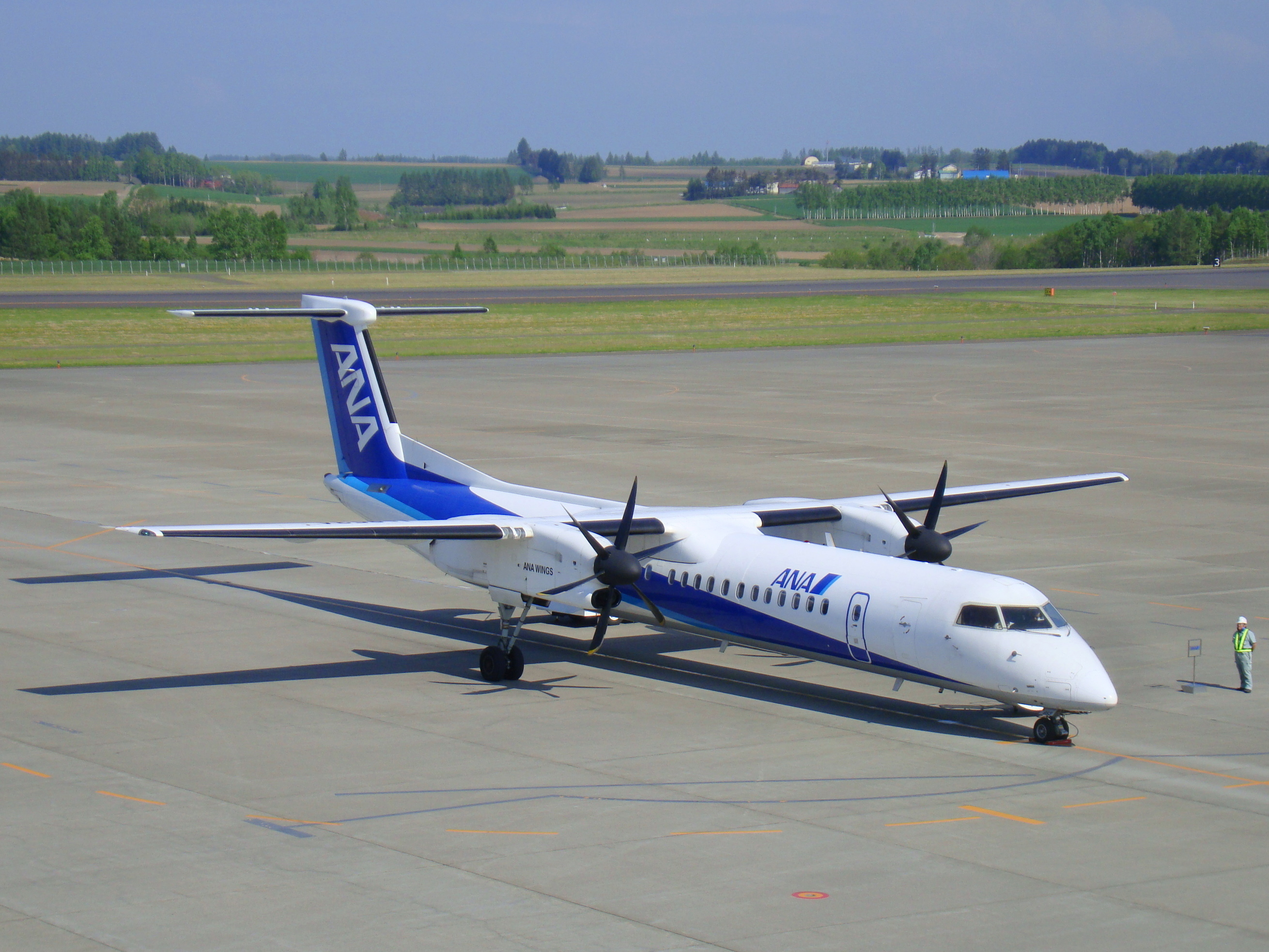 All Nippon Airways(ANA Wings) Bombardier Dash8 Q400 JA853A